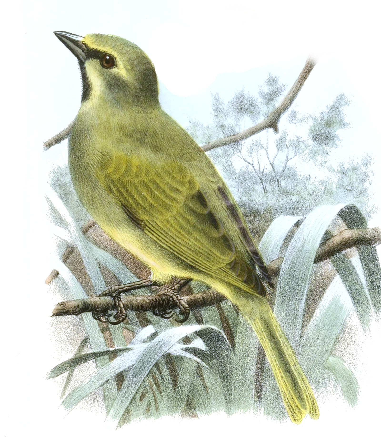 Nesospiza goughensis = Rowettia goughensis